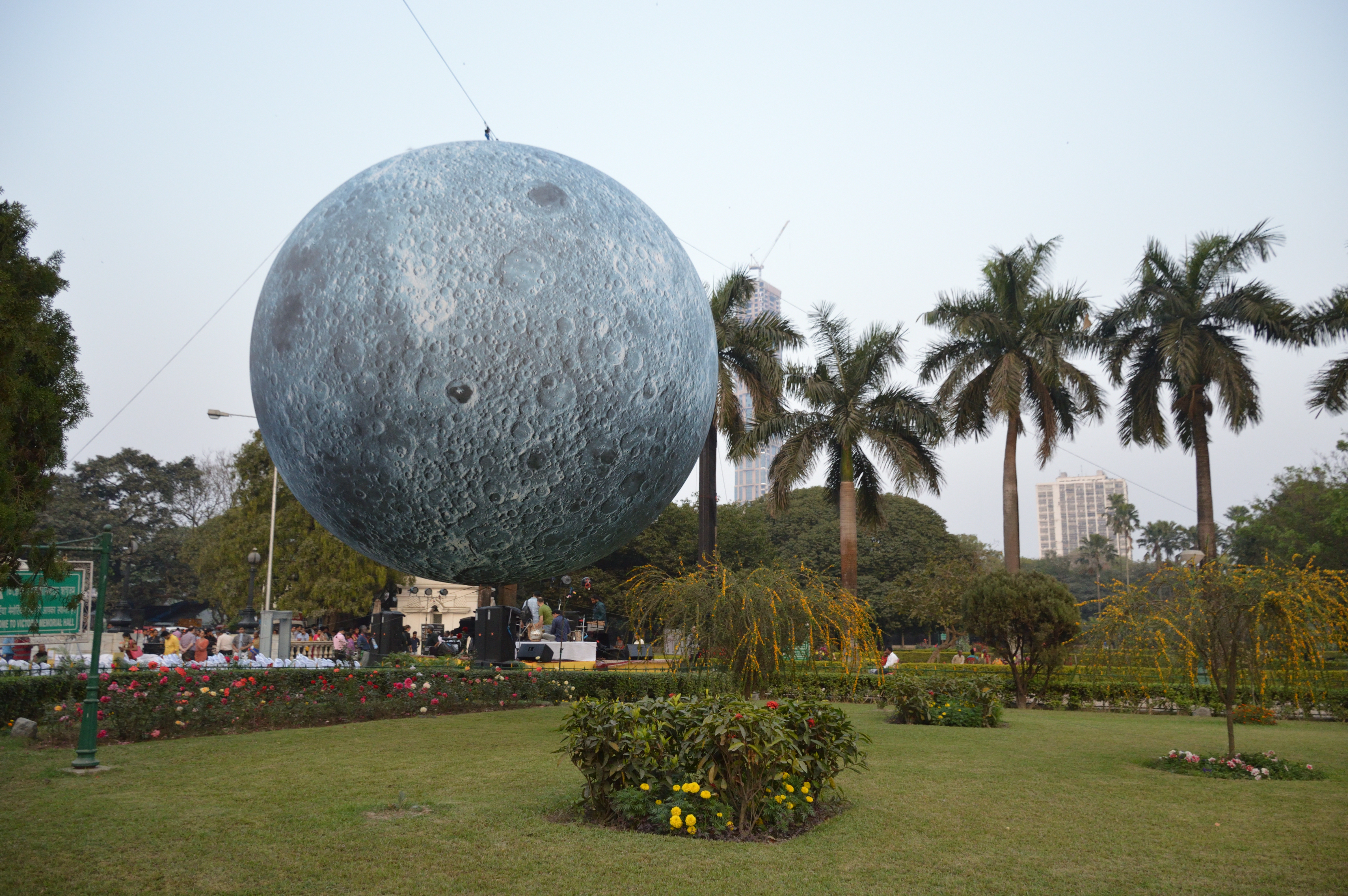 This photograph was taken during the 'Museum of the Moon', an art installation of earth's only satellite by UK artist Luke Jerram, that displayed on the front lawn near the north gate of Victoria Memorial Hall, Kolkata. It is measuring 7 metres in diameter, the mini moon features detailed Nasa imagery of the lunar surface, at an approximate scale of 1:500,000, each centimetre of the internally lit spherical sculpture represents 5km of the moon's surface. The project uses imagery of Nasa's Lunar Reconnaissance Orbiter Camera.